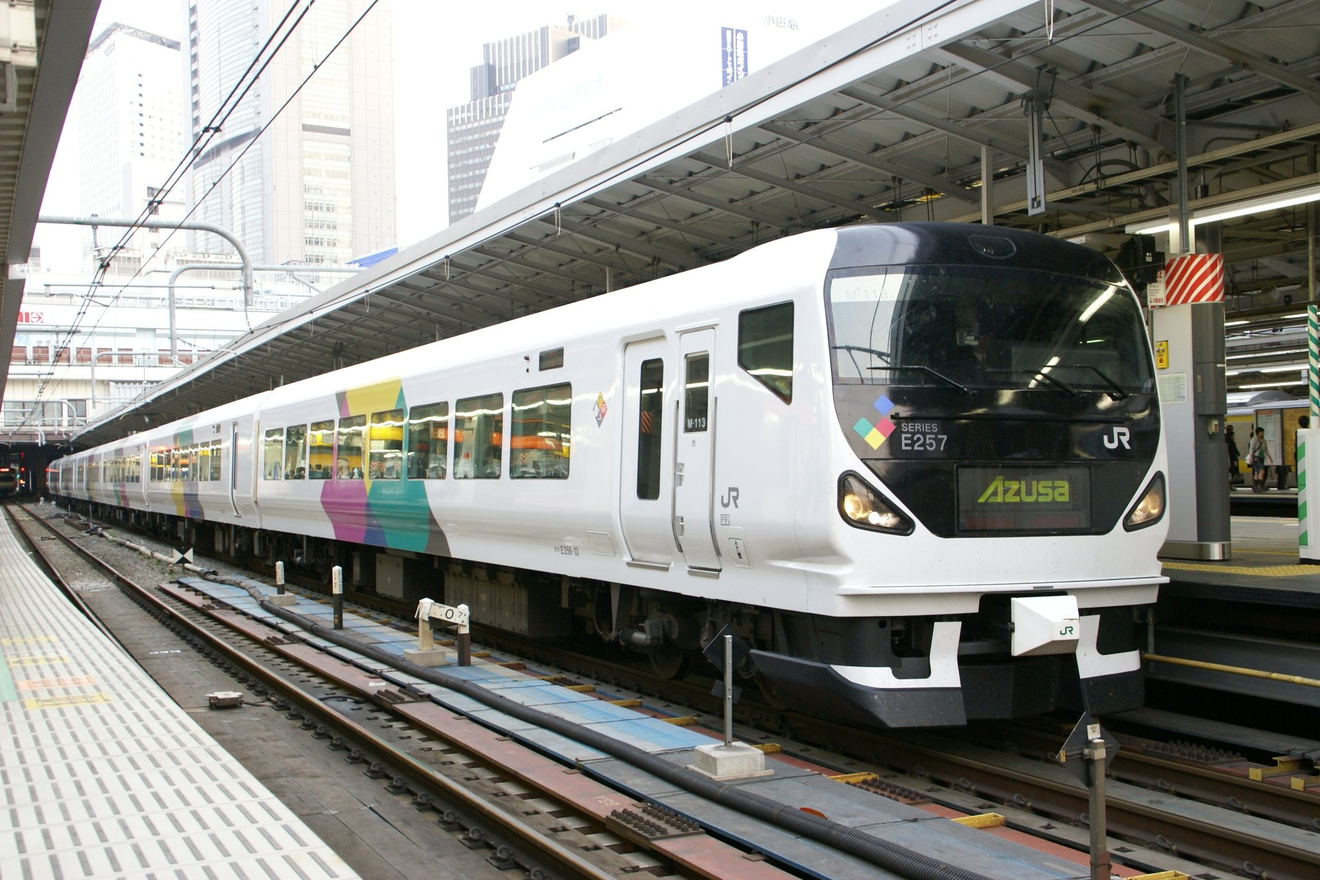 A JR East E257 series EMU on the Azusa 27 service at Shinjuku